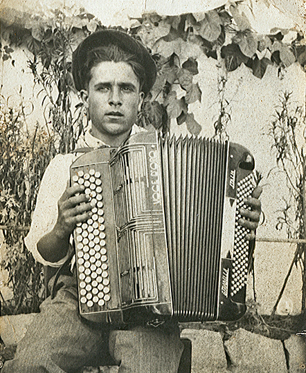 Voce D'Oro accordion, in the 1950s. Photographed in Torrão, Alentejo, Portugal.